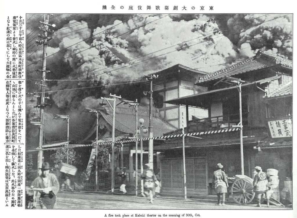 The Kabukiza Theater (Tokyo, Japan) was burnt to the ground in a fire caused by an electrical short circuit on 30 October 1921.